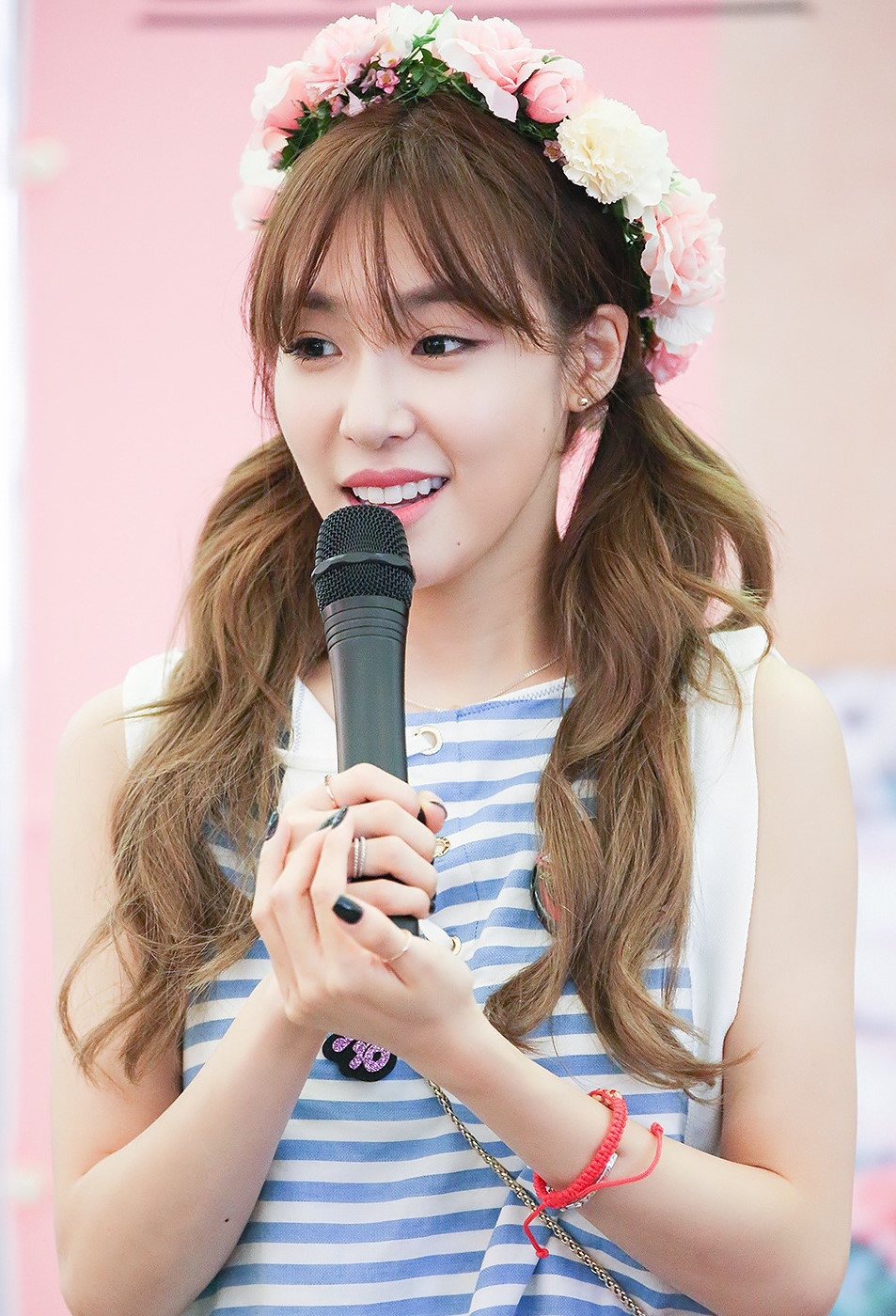 Tiffany Hwang at a fansigning in Busan, on June 6, 2016.